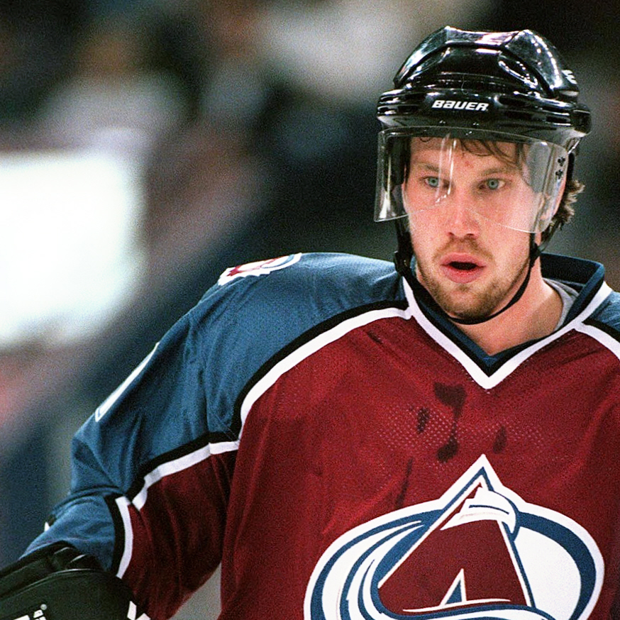 Peter Forsberg in a Colorado Avalanche jersey.